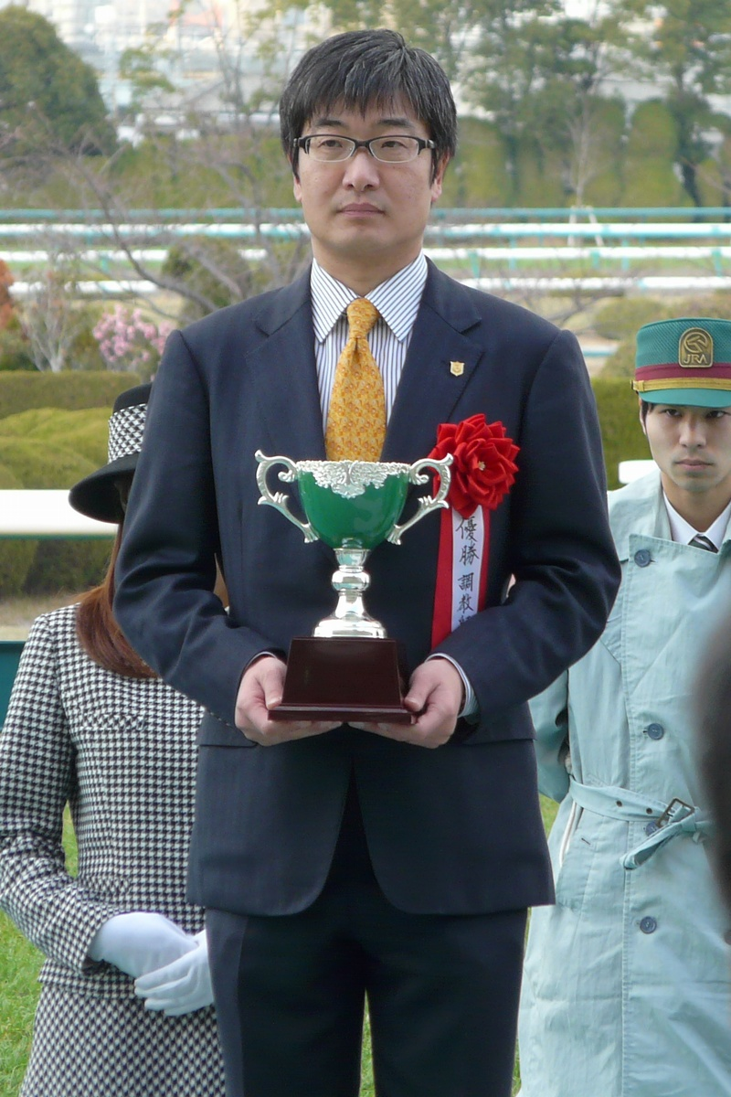 Noriyuki-Hori20101218